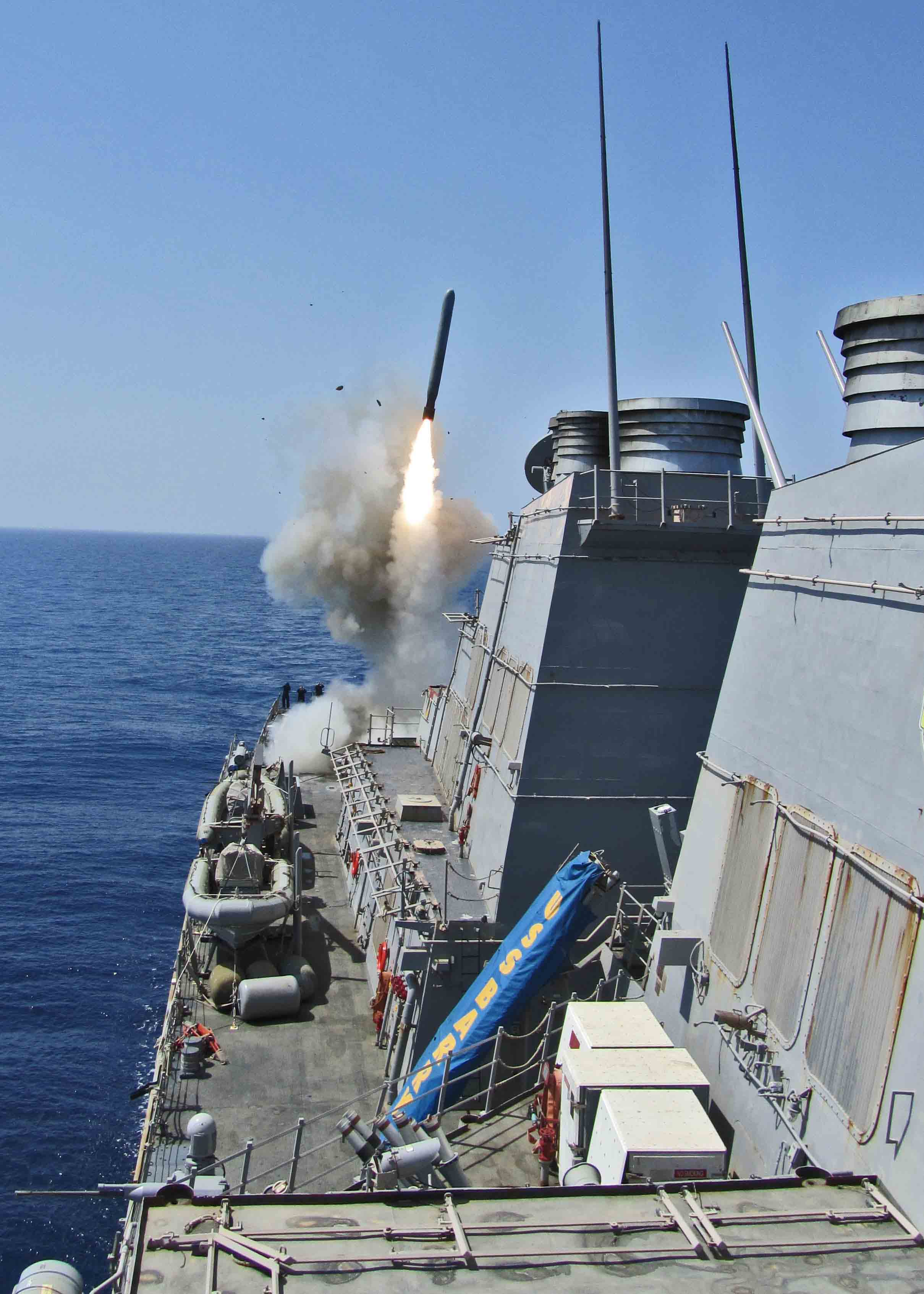 MEDITERRANEAN SEA (March 29, 2011) The Arleigh Burke-class guided-missile destroyer USS Barry (DDG 52) launches a Tomahawk cruise missile to support Joint Task Force Odyssey Dawn. Odyssey Dawn is the U.S. Africa Command task force established to provide operational and tactical command and control of U.S. military forces supporting the international response to the unrest in Libya and enforcement of United Nations Security Council Resolution (UNSCR) 1973. (U.S. Navy photo by Lt.j.g. Monika Hess/Released)